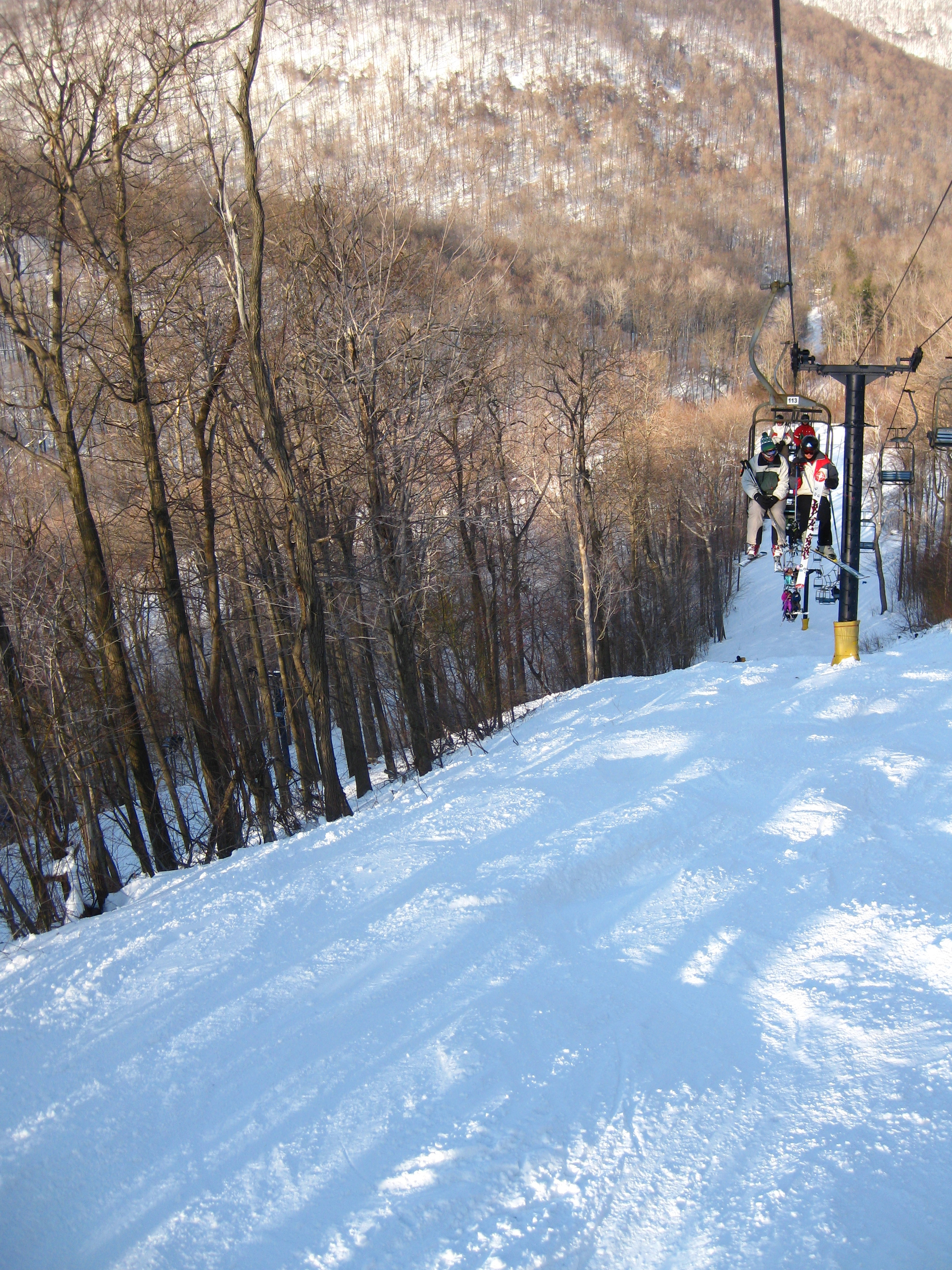 Chair lift over a ski slope at Blue Knob State Park